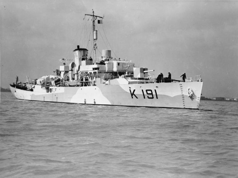 The Canadian Flower class corvette HMCS Mayflower (K191), date unknown.